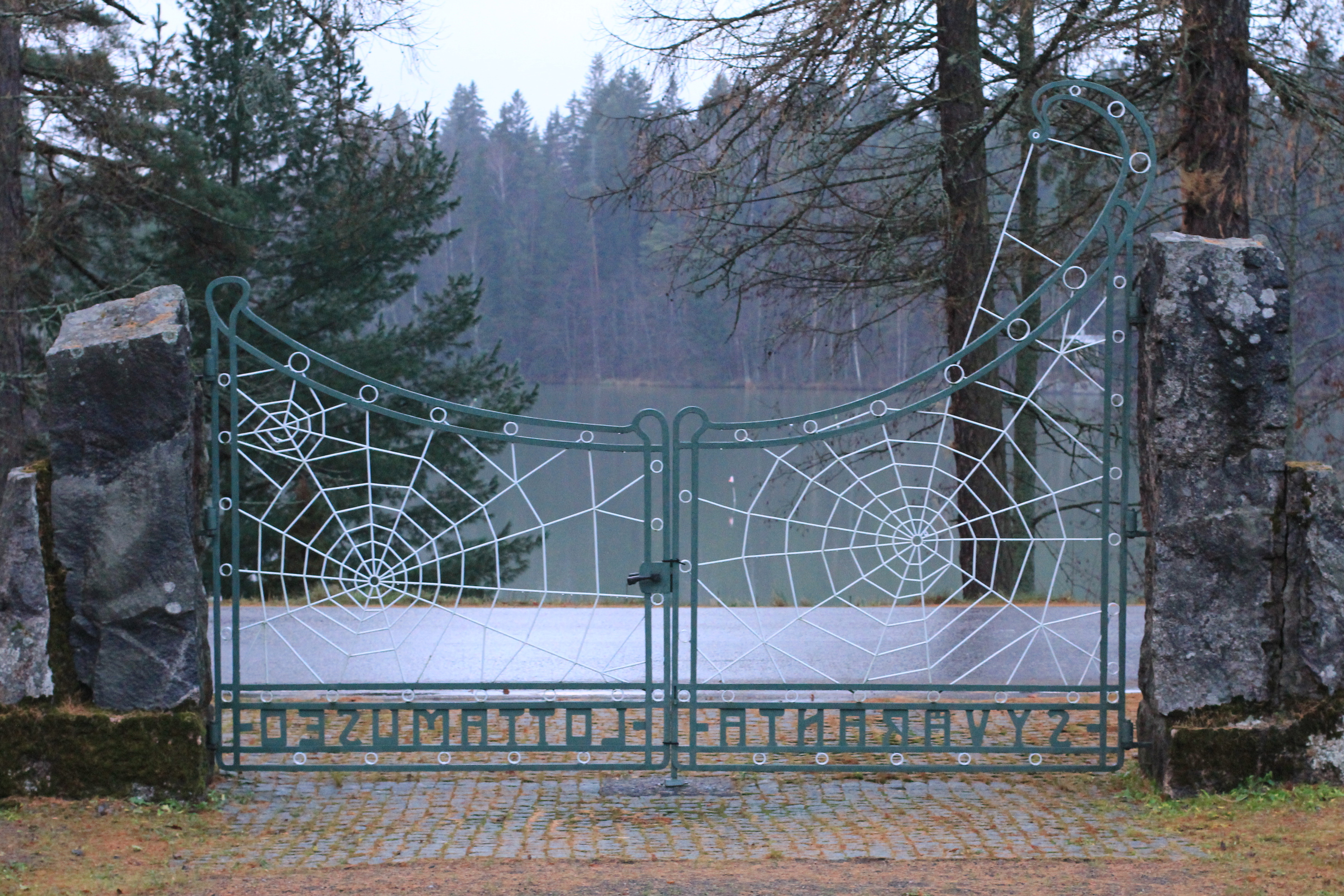 The Lotta Museum, Tuusula, Finland. - Museum established in 1996. Museum building completed in 1996, designed by architects Irmeli and Markus Visanti. - Old spiderweb gate.